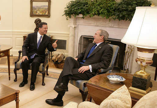 President Bush Welcomes President Fernandez of the Dominican Republic to the White House President George W. Bush meets with President Leonel Fernandez of the Dominican Republic in the Oval Office Wednesday, Oct. 25, 2006. White House photo by Eric Draper